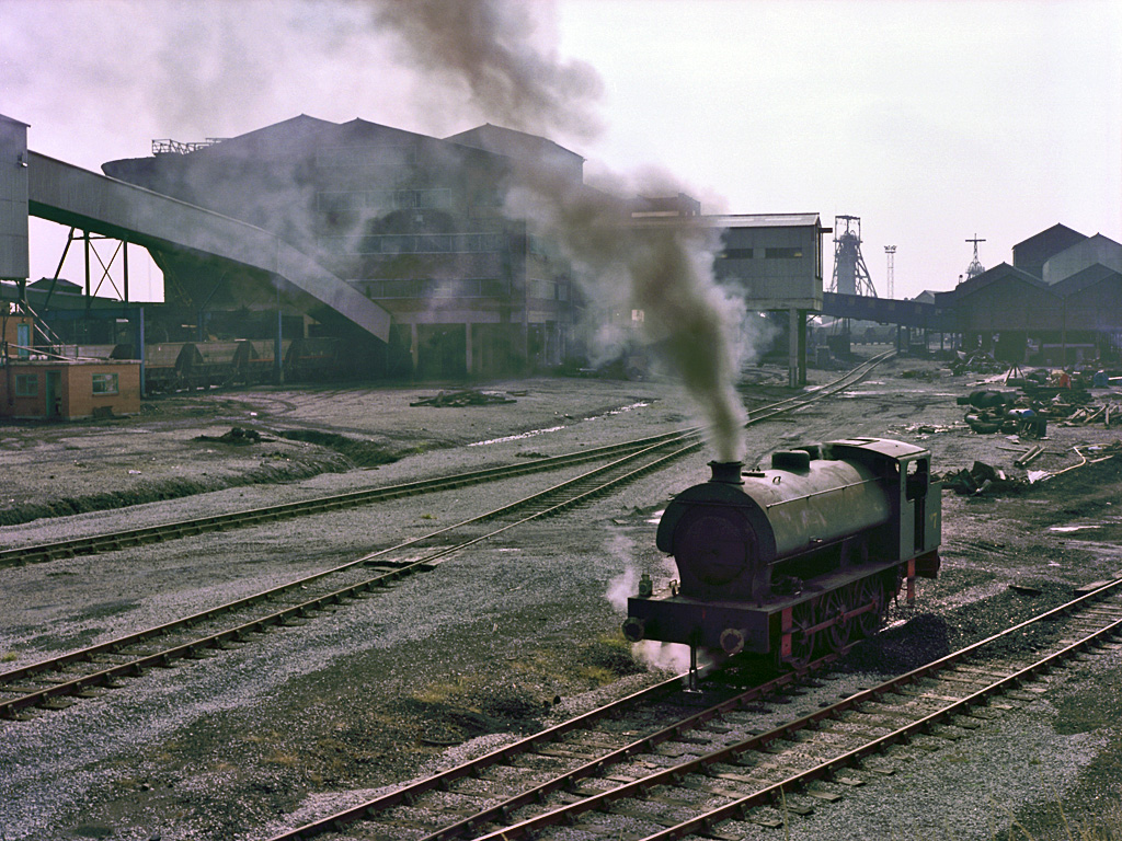 National Coal Board Hunslet Engine Company Limited 18" x 26" 0-6-0ST 'Austerity' class locomotive number 63.000.326 (works number 3776 of 1952) stands near the locomotive shed at Bickershaw Colliery, Leigh. Thursday 18th August 1983